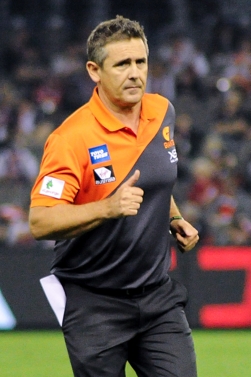 Leon Cameron during the AFL round five match between St Kilda and Greater Western Sydney on 21 April 2018 at Etihad Stadium in Melbourne, Victoria.